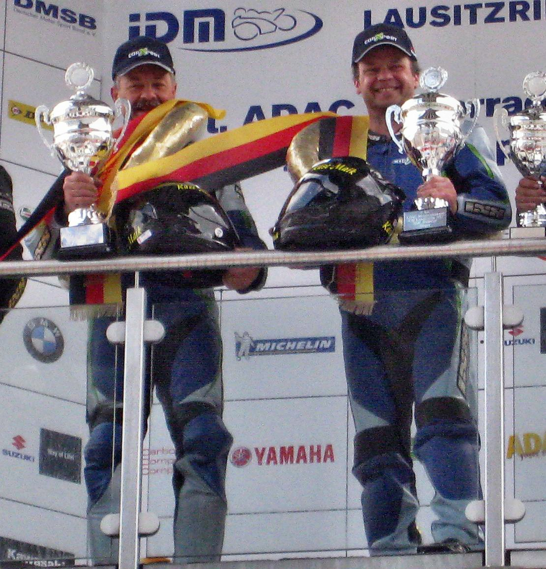 Pekka Päivärinta (right) with Adolf Hänni after their win in the IDM-Sidecar-race 2012 at EuroSpeedway Lausitz